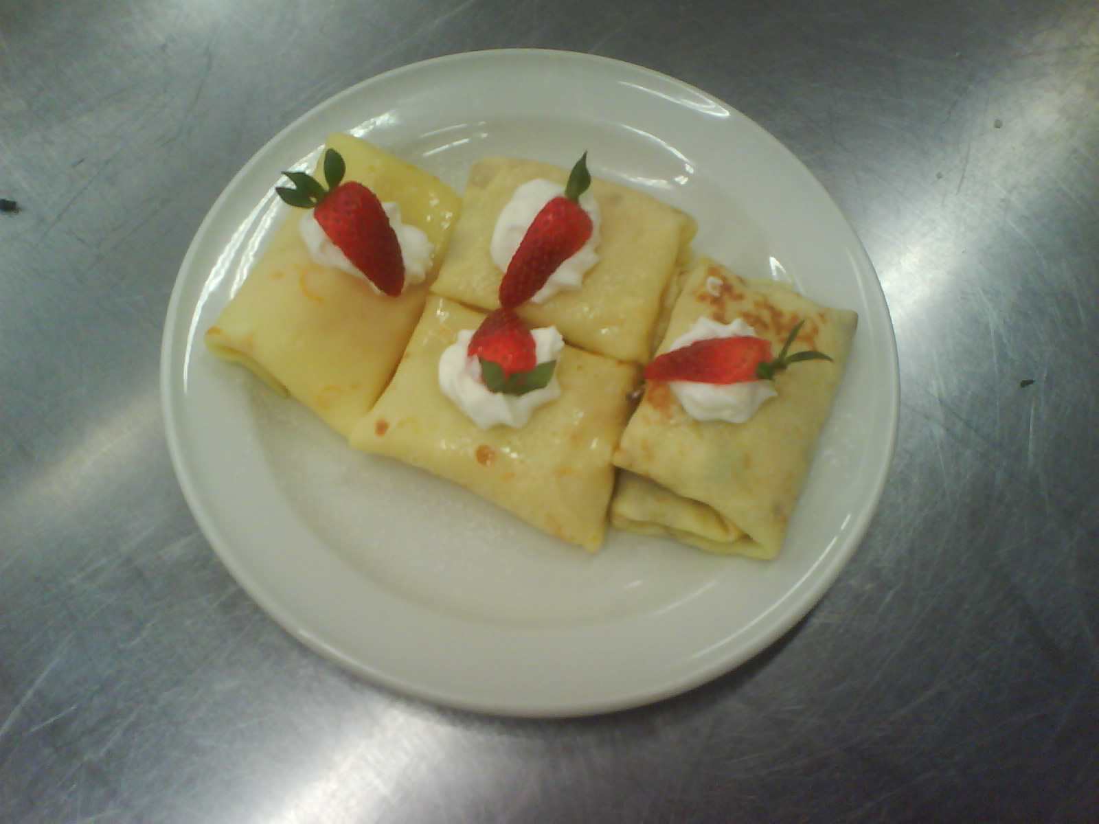 Pancakes in Hong Kong style